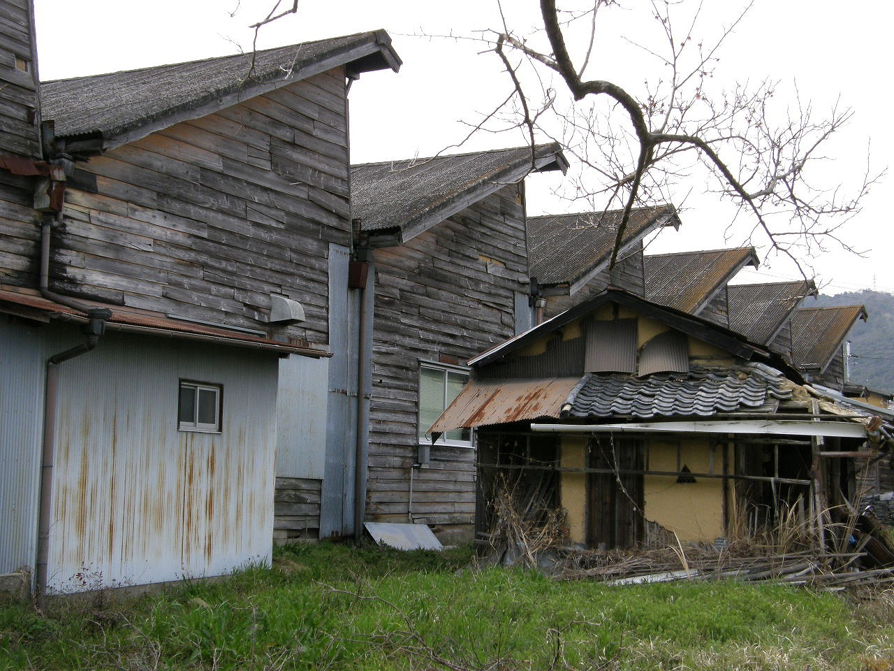 KAMIMUSUBI BREWERY CO.,LTD